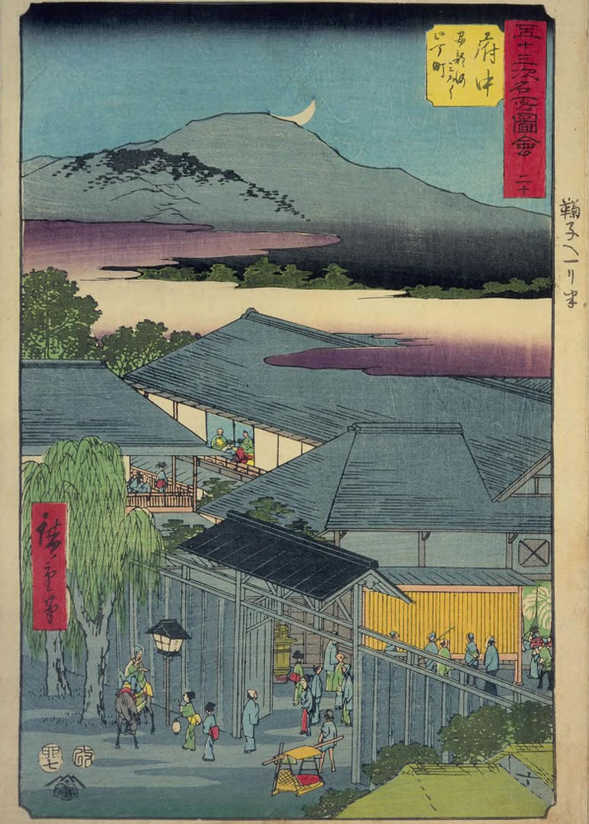 "Famous Places of the Fifty-three Stations of the Tōkaidō (GojūSanTsugi-MeishoZu'e), No. 20, Fuchū" : Nichomachi Yūkaku at AbekawaMiroku.